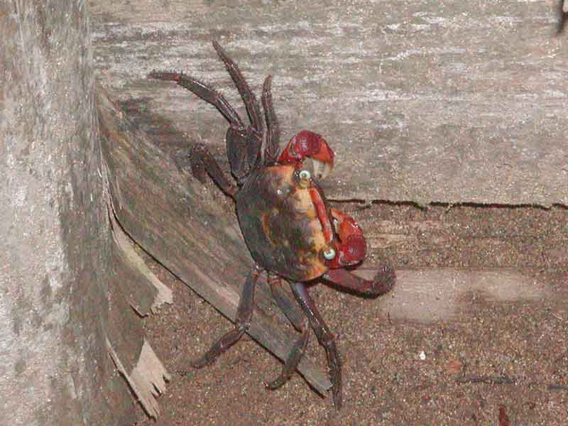 Chiromantes haematocheir (akategani) photo by Tsurumi 12.oct.2006